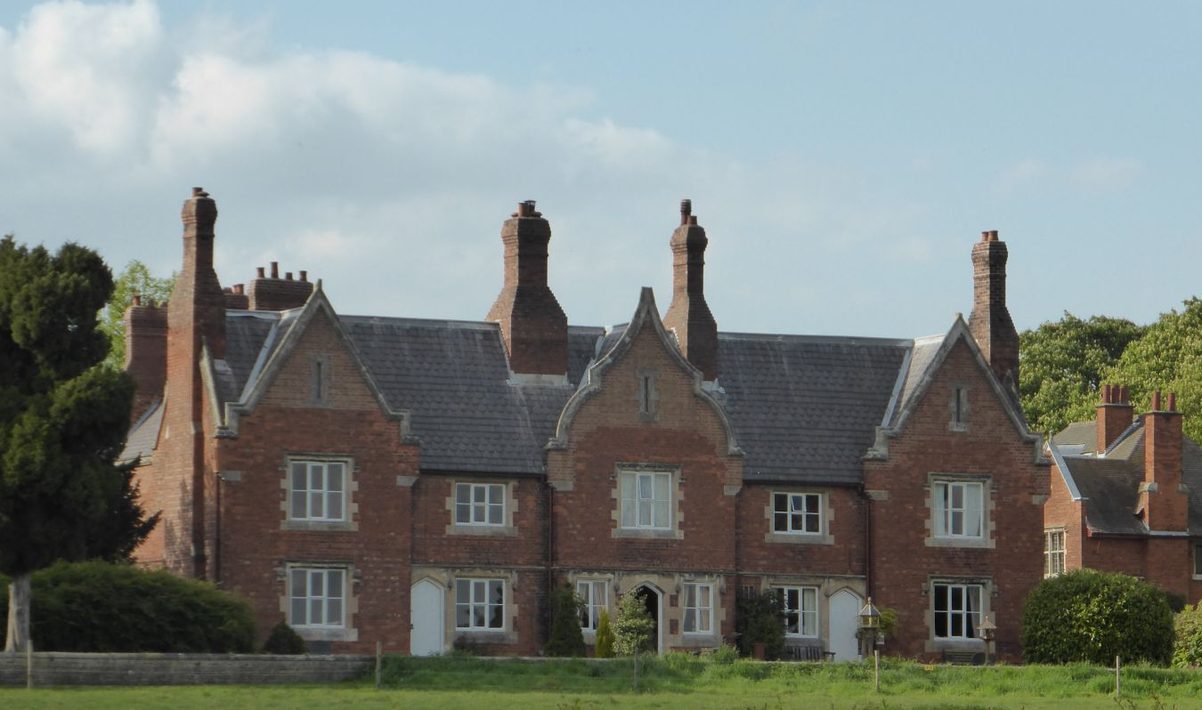 Houses in Hardwick Village